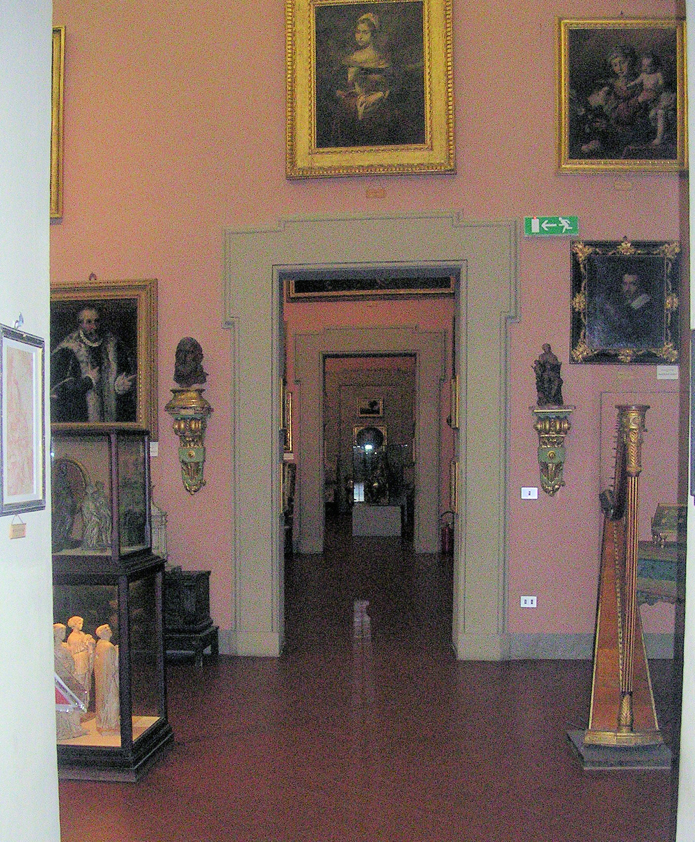 Internal view of Museo Davia Bargellini (Bologna, Italy)